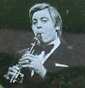 Cropped version of Image:Zentralfriedhof Fatty George.jpg